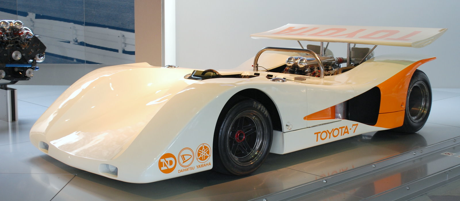 Toyota_7 (1969)